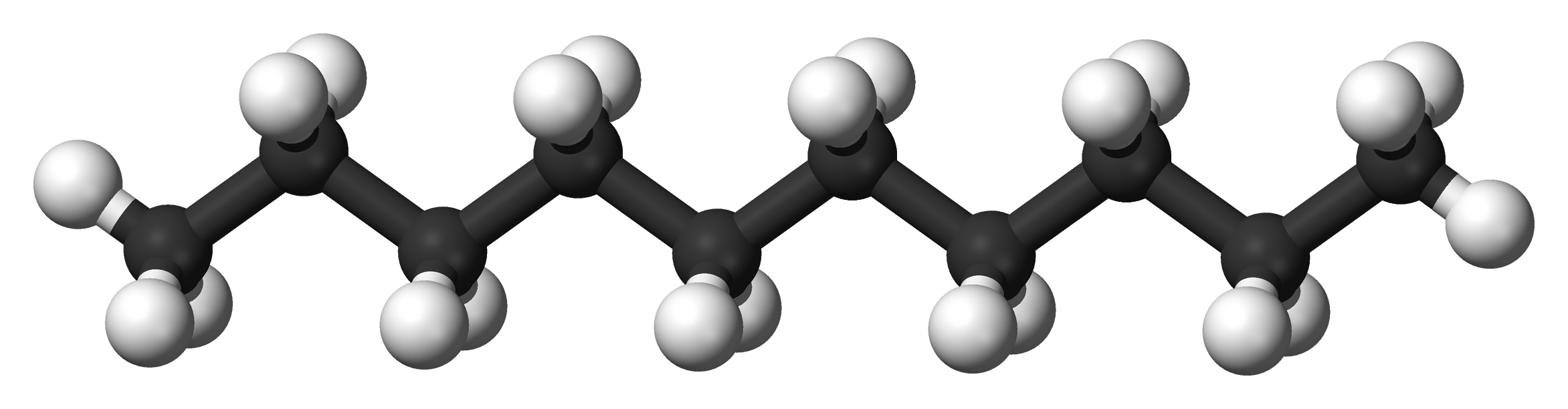 Ball and stick model of the decane molecule.